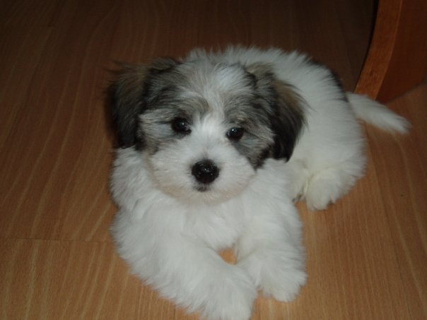 Picture of a tricolor coton puppy (10 weeks old)